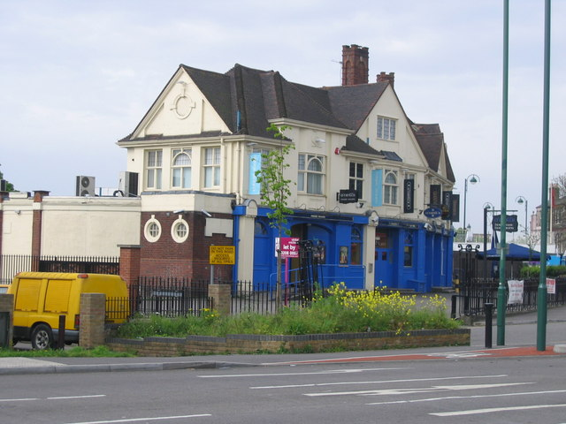 O'neil's Pub: formerly The Green Man